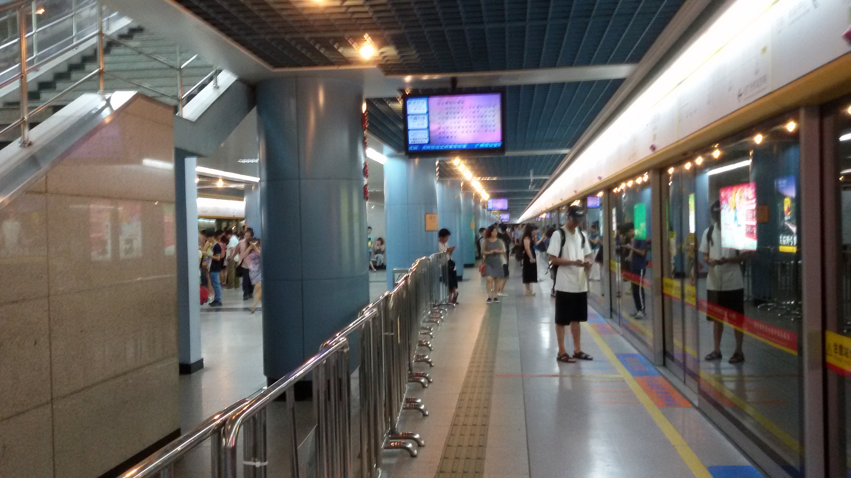 Platform for Line 1 in TiyuXilu Station, Guangzhou Metro